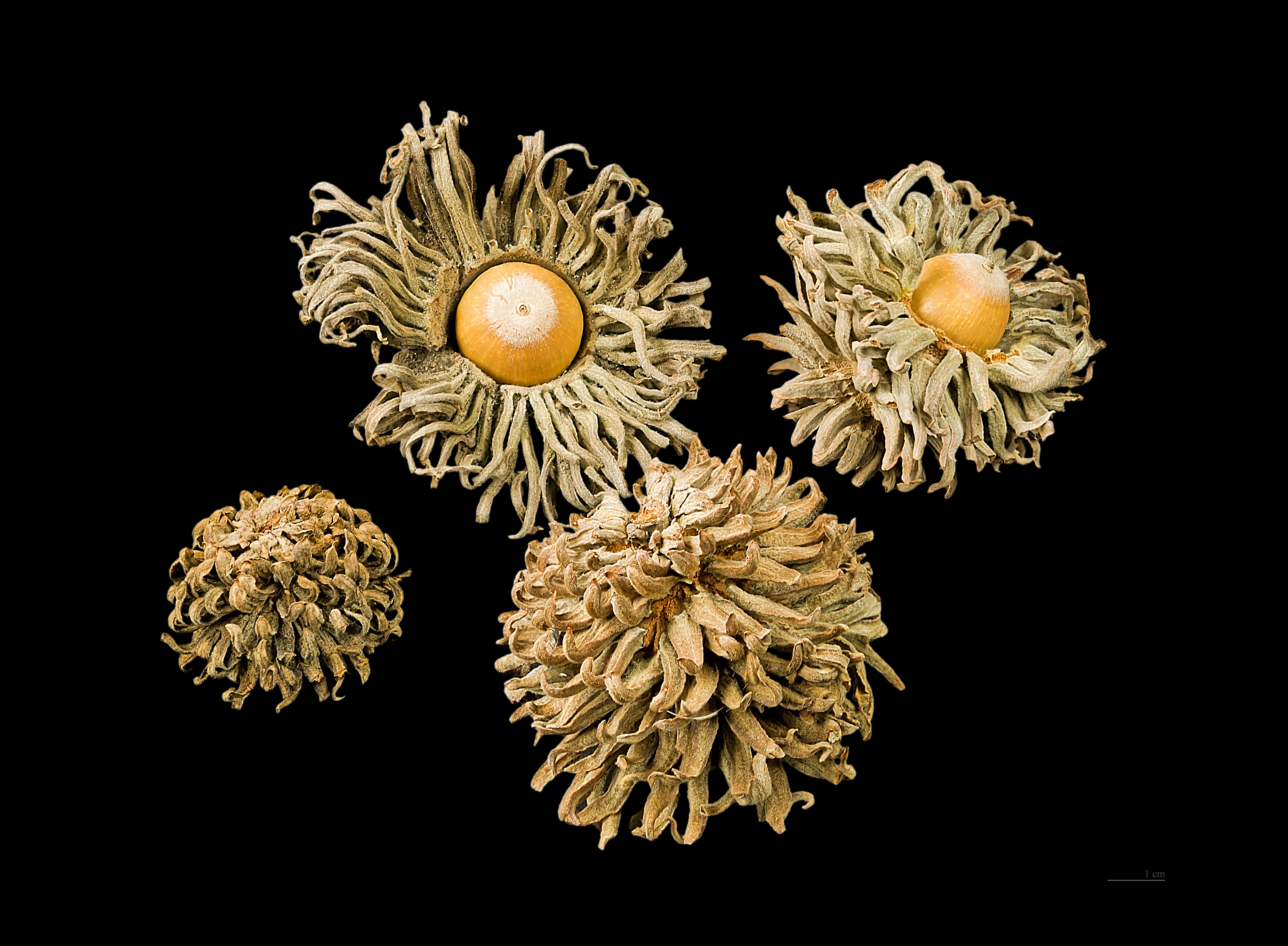 Acorn of vallonea oak.